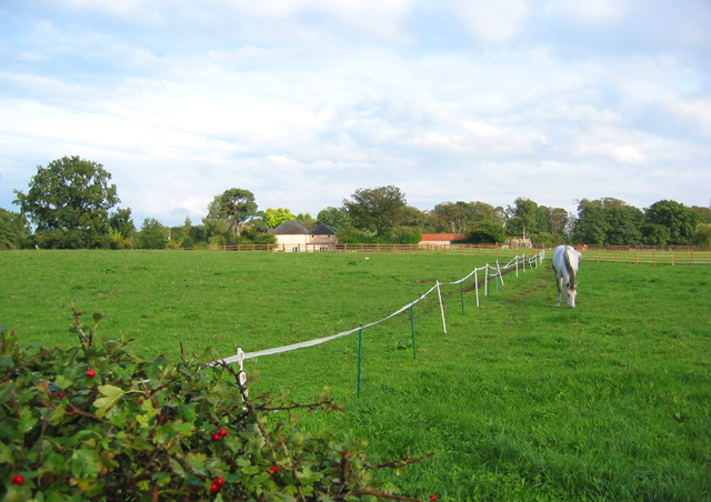 Paddocks by the B5071. One of a series of paddocks to the east of the B5071, most of which contain only a single horse